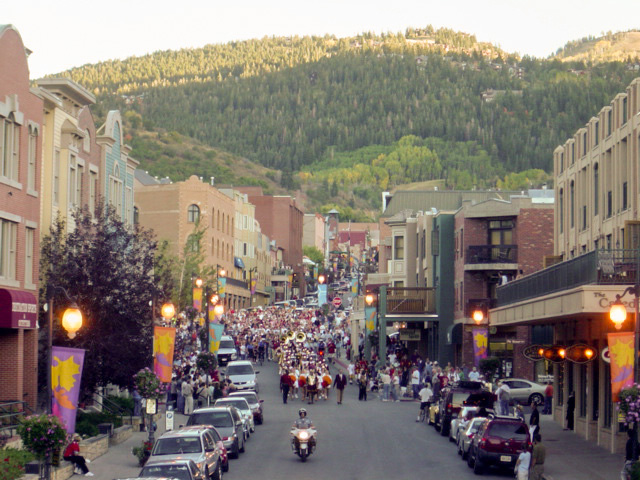 The USC Trojan Marching Band leads a parade down Park Ave. in Park City, Utah.